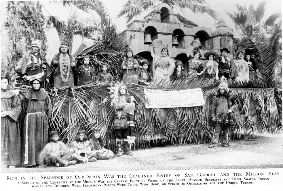 The Mission Play float at the Tournament of Roses Parade won the first prize silver cup on January 1, 1922. It was a combined entry by the Mission Play production and the City of San Gabriel, where the play was being performed. The float featured a replica of the Mission San Gabriel campanile at its center and was attended by men and women in costumes evoking the Spanish mission era and "the splendor of Old Spain." black and white photograph with caption. 8 x 10 in.